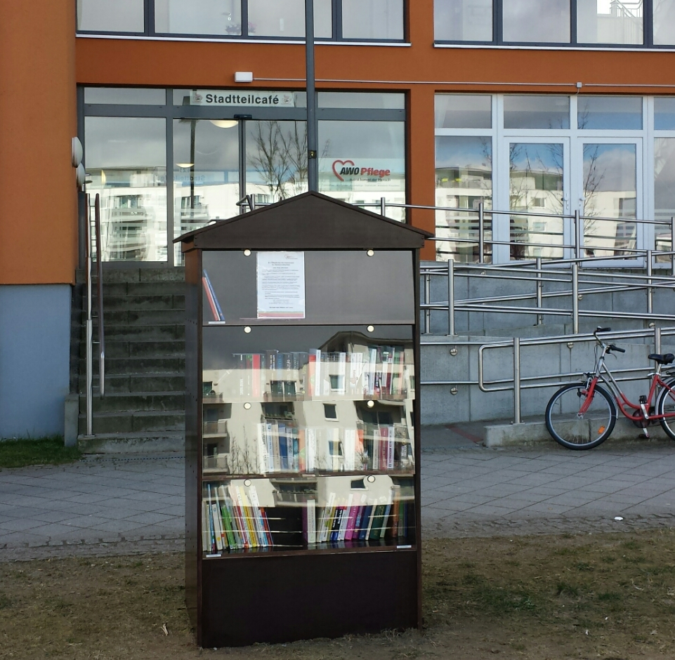 Public Bookcase in Lübeck, Hochschulstadtteil, Carlebachpark, Paul-Ehrlich-Straße 5, AWO-Servicehaus